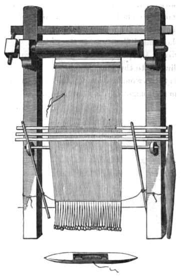 Icelandic warp-weighted loom fromThe History and Principles of Weaving by Hand and by Power by , 1878, S. Low, Marston, Searle & Rivington, London.